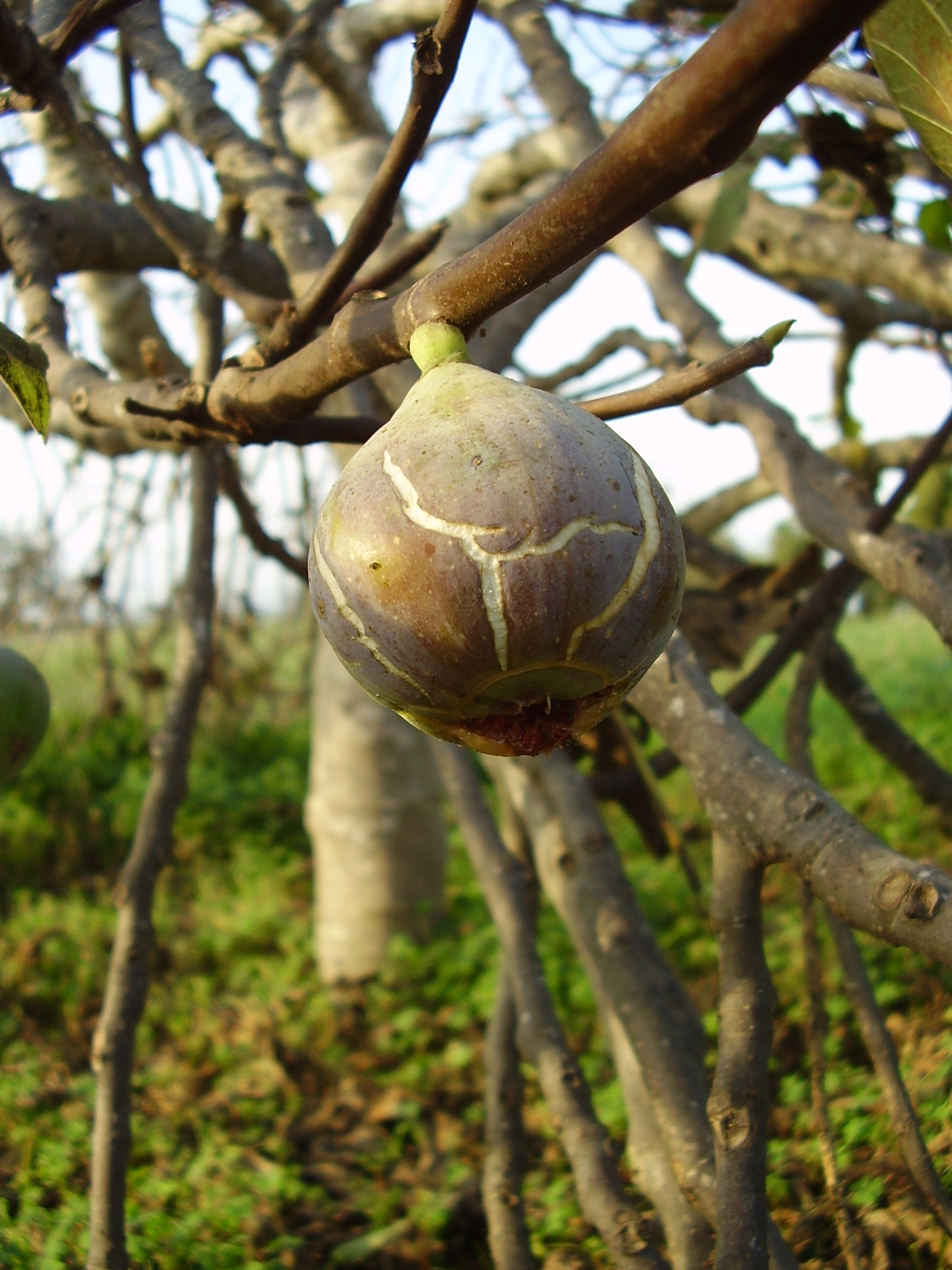 "Partridge's fig(Ficuls carica), Mallorca.